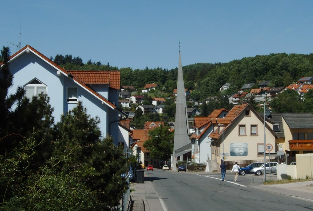 Church in Altenbach (Schriesheim)